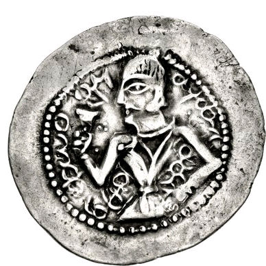 Hephthalites chieftain late 5th century